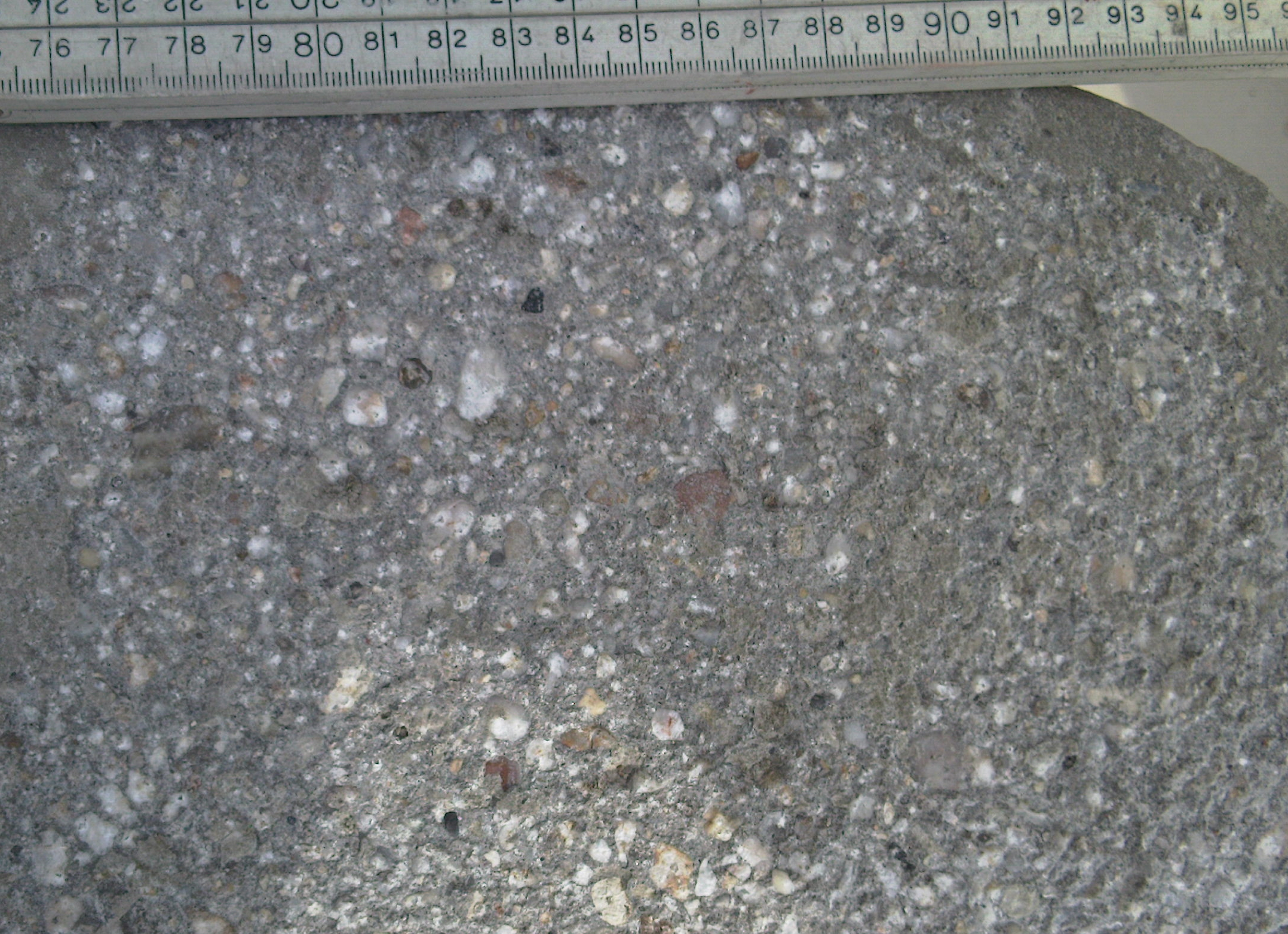 a concrete surface treated with the Bush hammer